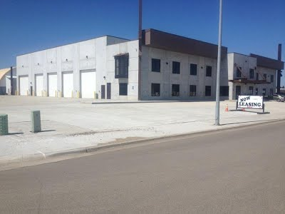 Photo of a modern precast concrete building in Williston, North Dakota USA. The building is a flex space building.